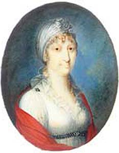 Maria Beatrice d'Este.